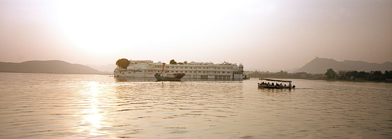 Photograph by Lakhinder Walia. Shot from the boat approaching Lake Palace.